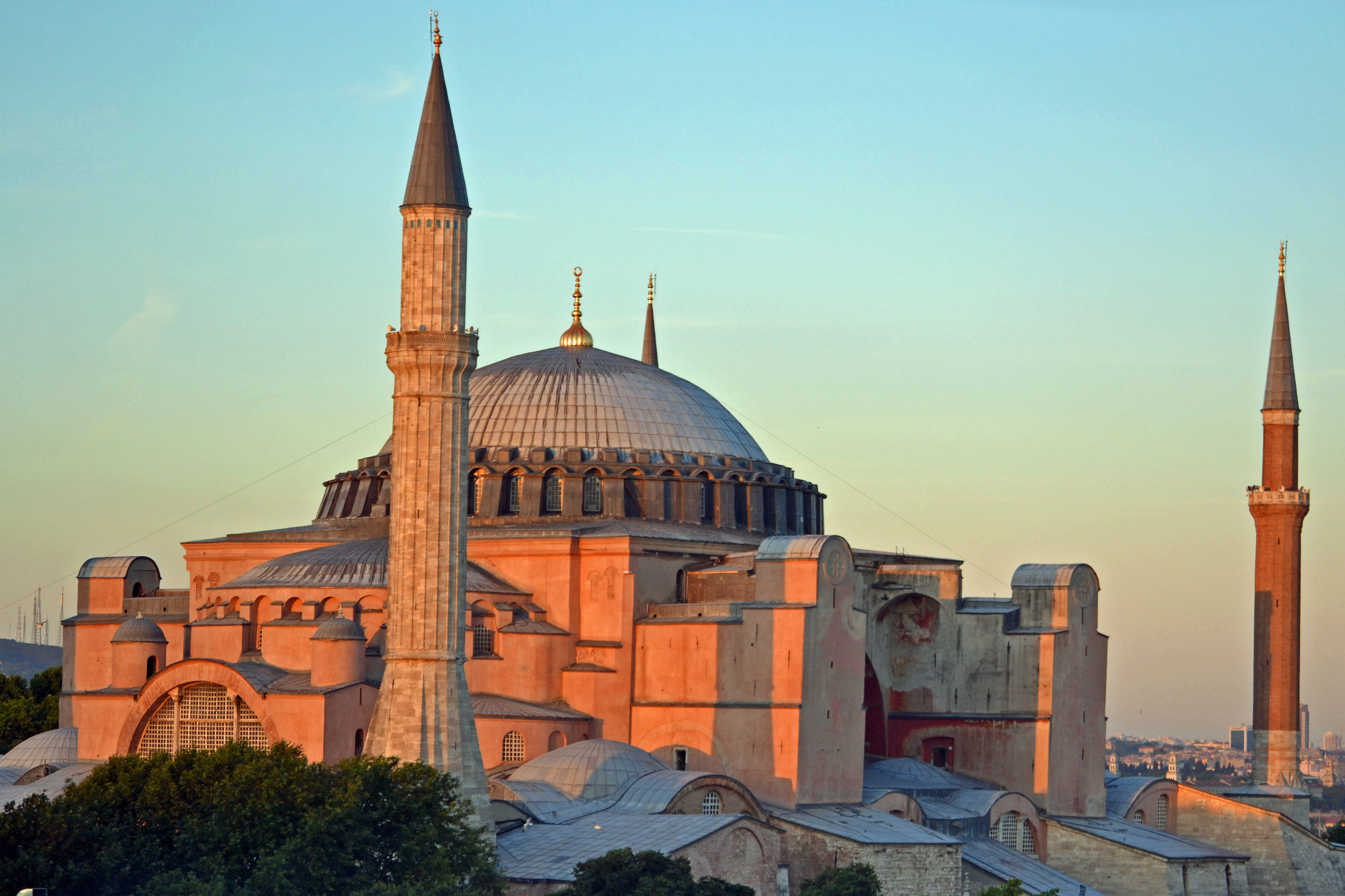 View of Hagia Sophia at sunset